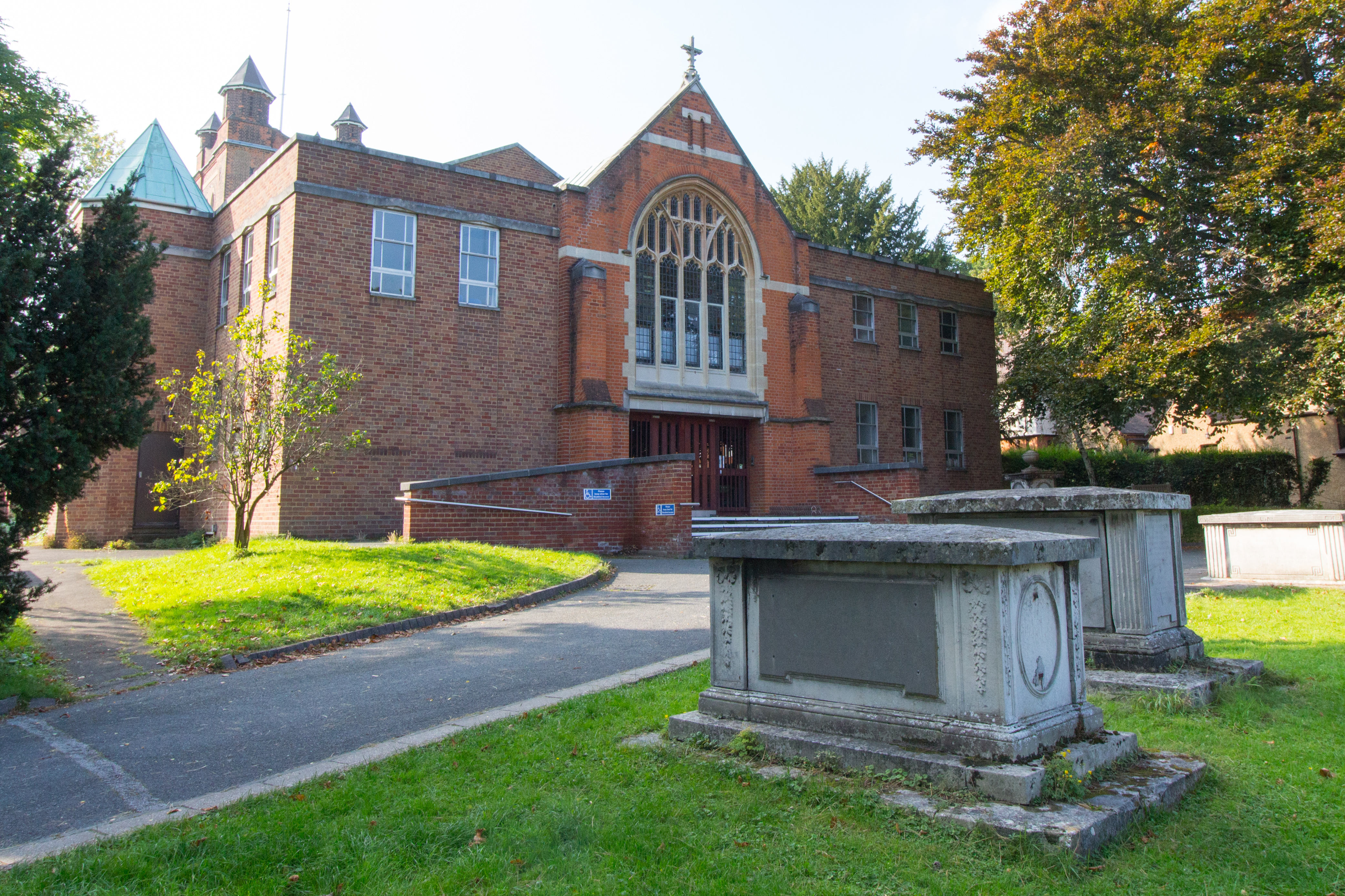 Parish church of St Mary the Virgin, High Street, Woodford, London, seen from the east